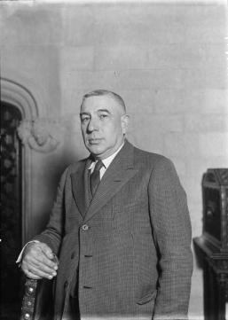 josep irla, catalonian prime minister in exile during 1940-1954